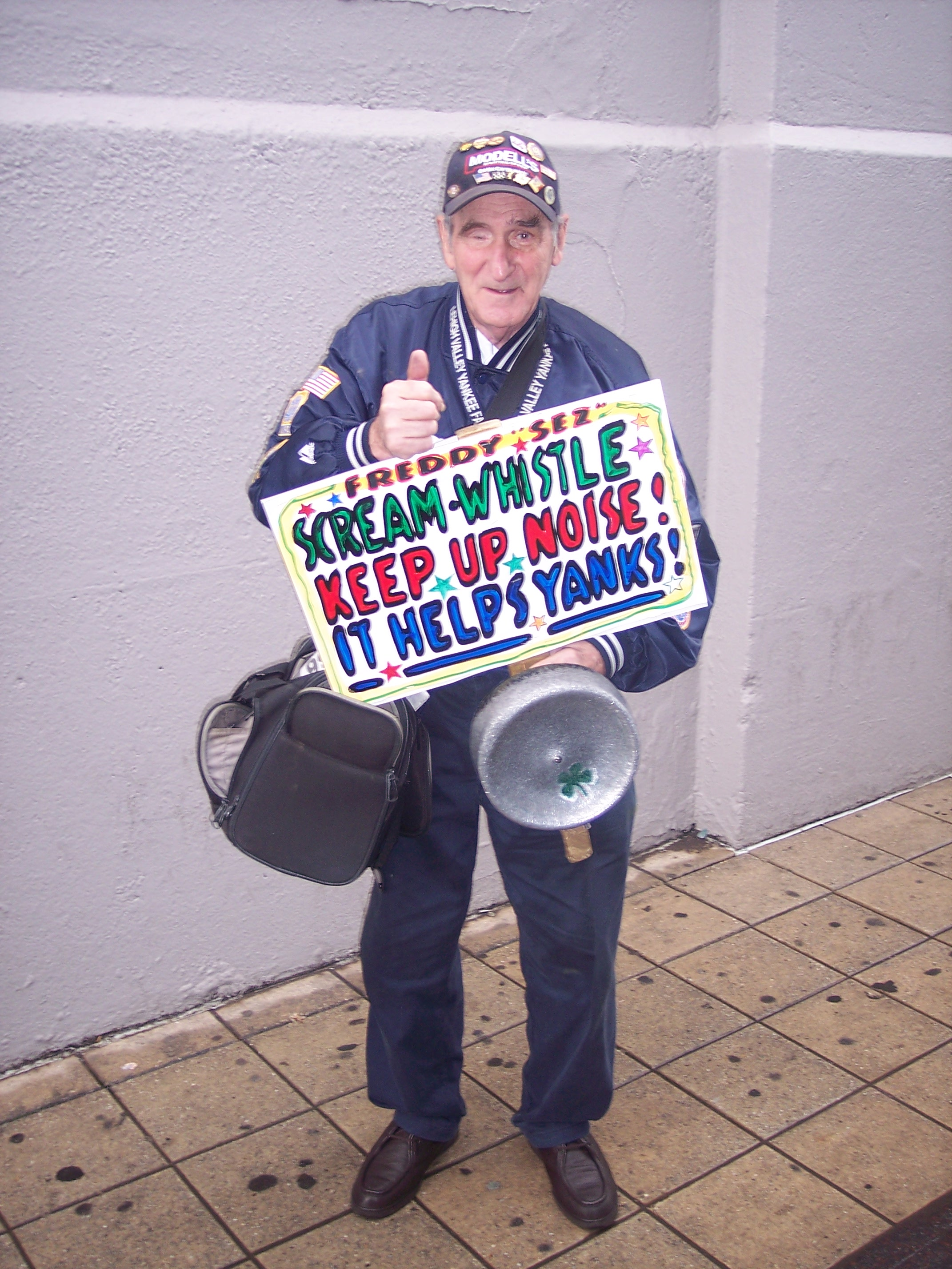 Freddy Schuman, picture taken at Yankee Stadium